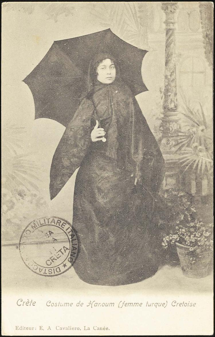 Muslim "Turkish" Woman of Crete. Crete.